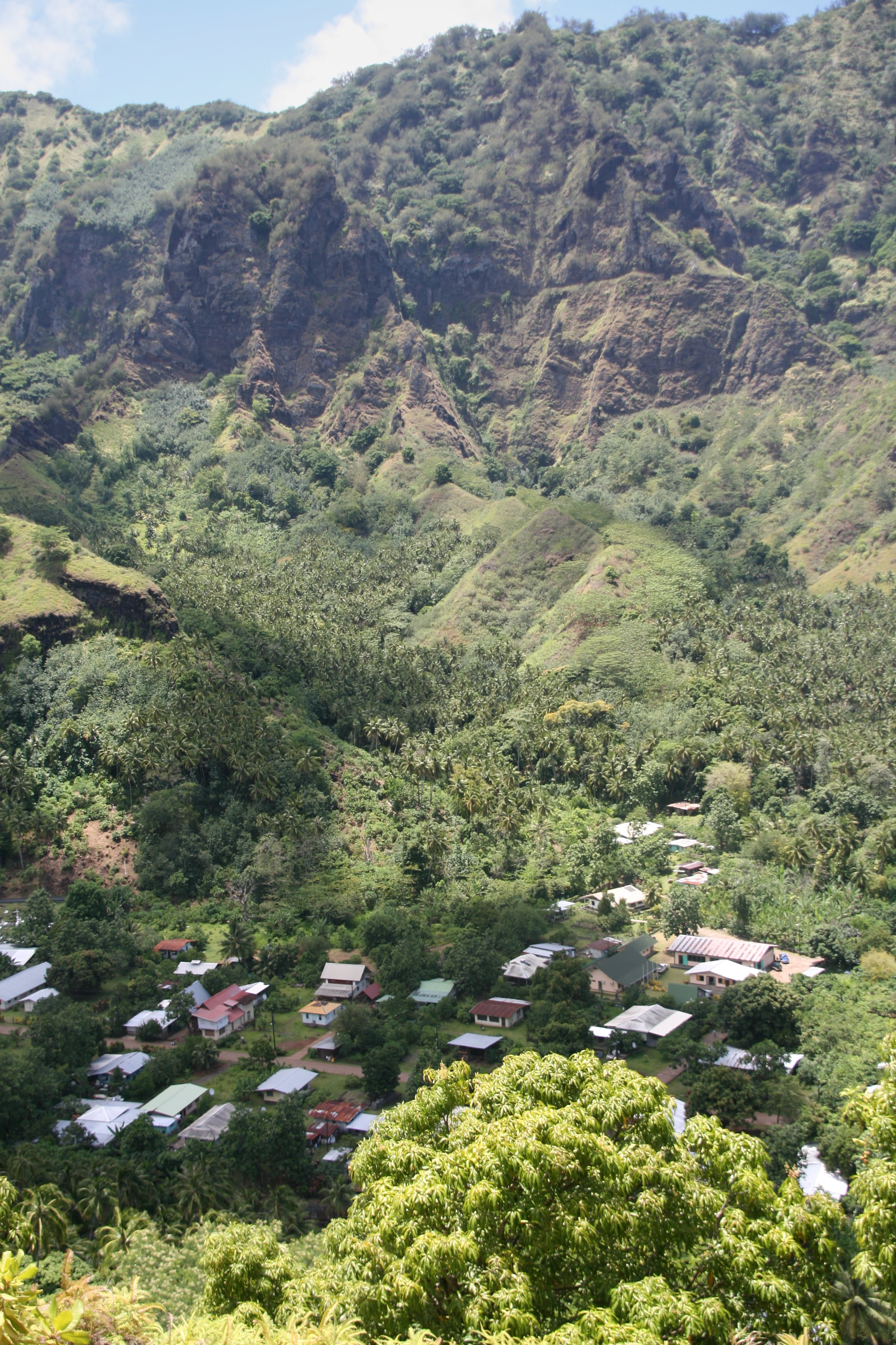 Sigth of Omoa village, island of Fatu Iva, Marquesas islands, French Polynesia.